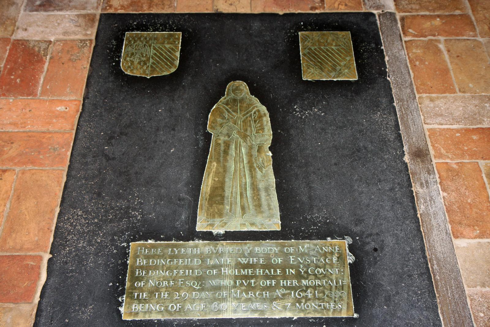 Monumental brass in the chancel of All Saints' parish church, Darsham, Suffolk, commemorating Anne Bedingfeild, who died in 1641